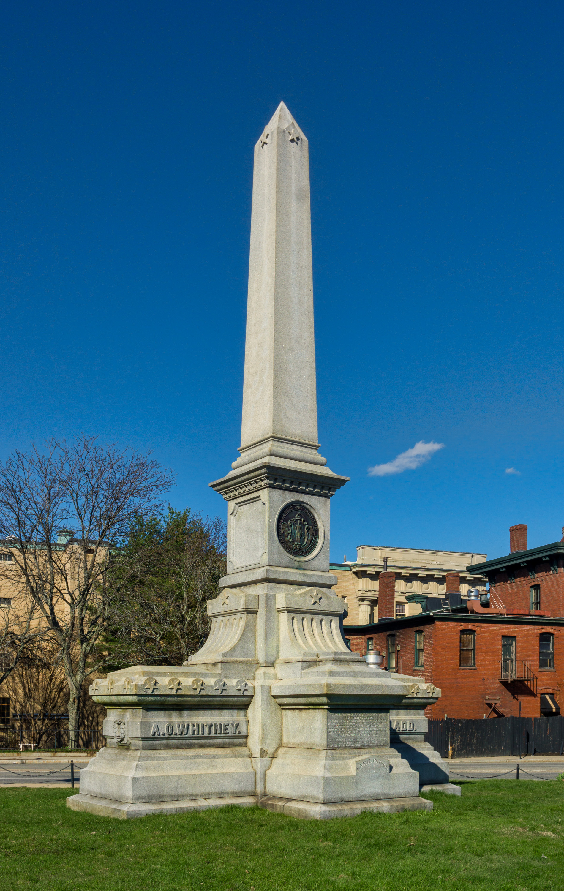 Ladd and Whitney Monument, a Civil War memorial in Lowell, Massachusetts